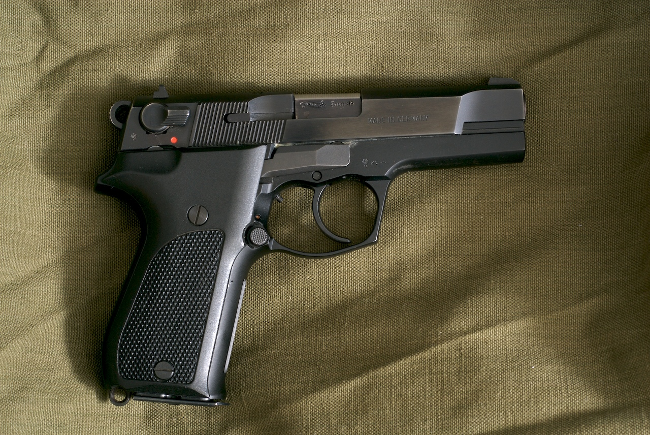 Walther P88 Compact